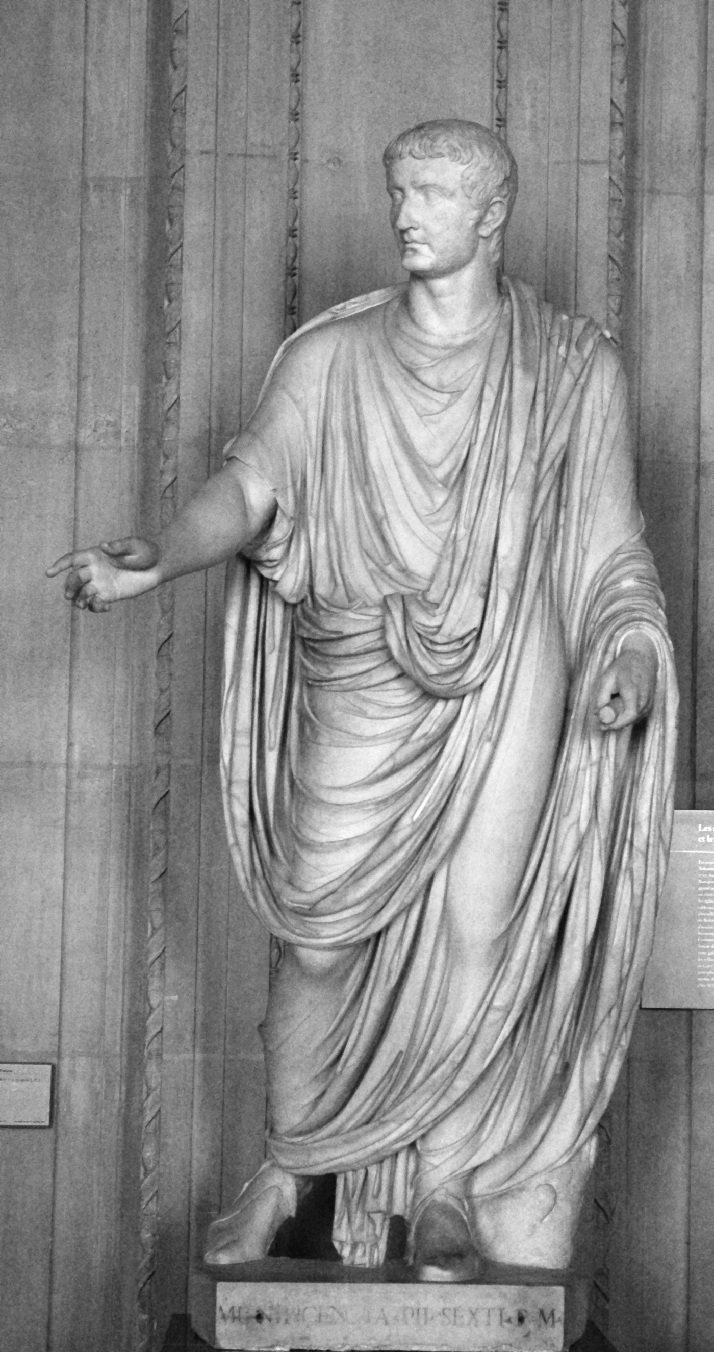 Portrait of Tiberius (14-37)